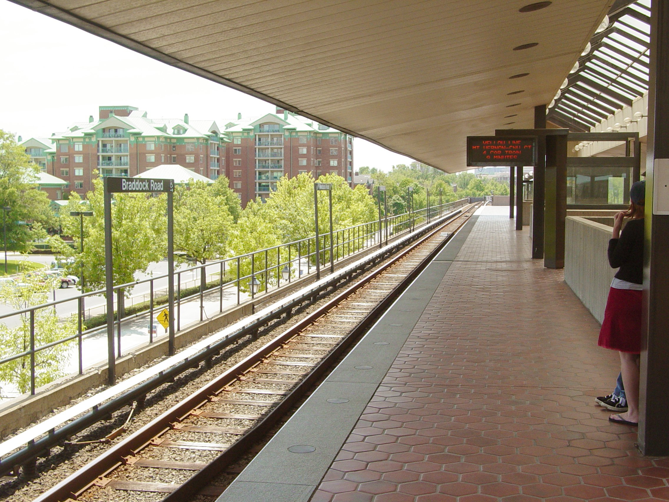 Braddock Road station, part of the Washington Metro system.